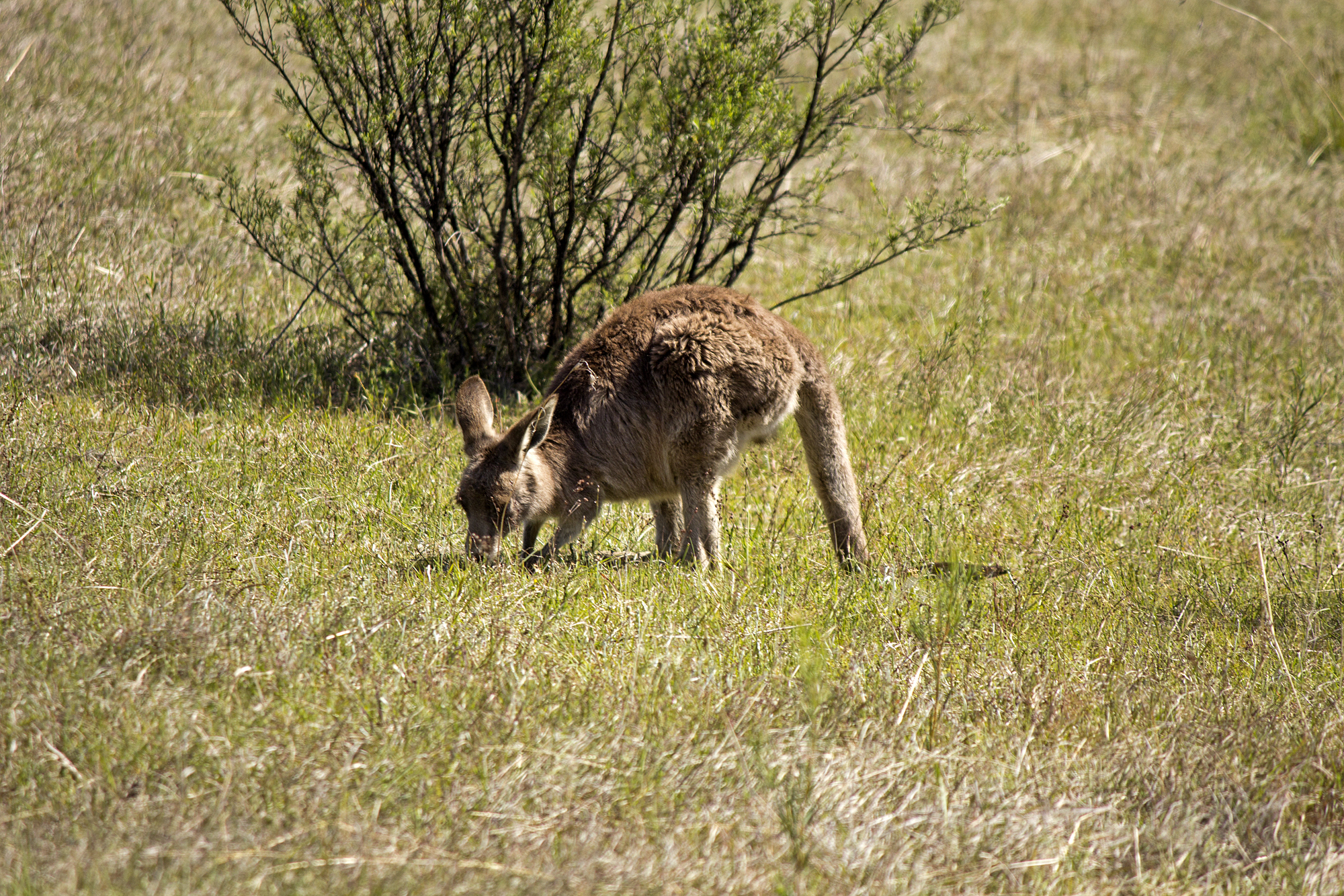 Eastern grey kangaroo (Macropus giganteus ) feeding on native grasses along the Gibraltar Peak Trail in the Tidbinbilla Nature Reserve, taken during a hiking tour as part of Australian Capital Tourism's Human Brochure.